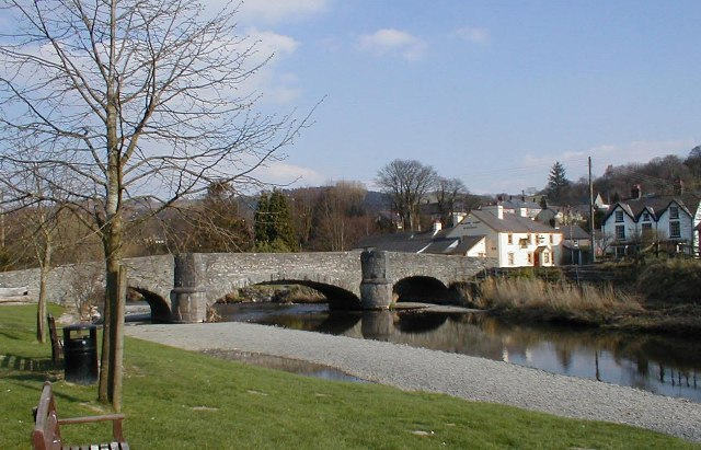 Llanfair TH. The bridge at Llanfair TH